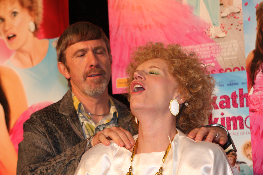 Kath & Kimderella movie premiere at Entertainment Quarter; Sydney, Australia Tonight the Australian "foxy moron" (Kath & Kim lingo) film enjoyed its Australian premiere at Entertainment Quarter in the shadow of Fox Studios Australia, Moore Park. The Kath & Kim franchise is well established and its usually a case of you either love them or hate them. Tonight there were hundreds of lovers of course. Some passionate fans dressed up as their idols - including some grown men in K&K drag. The girls at the premiere switched in and out of character, as they often do in news media interviews. The Flick... Kath, Kim and the latter's daggy offsider, Sharon (Magda Szubanski) are soon shipped off to Papilloma, a bankrupt principality in Italy, where the monarch, King Javier (Rob Sitch) mistakes Kath for a wealthy noble and plans to seduce her, while his son fixates on Kim as a princess. Plot... Fountain Lakes’ foxiest ladies turn more than just heads when they go on an OS trip and end up being the centre of their very own fairytale. Starring: Jane Turner, Gina Riley, Magda Szubanski, Glenn Robbins & Peter Rowsthorn. Director: Ted Emery Kath & Kimderella opens nationally Thursday, September 6. Websites Kath & Kimderella official website Kath & Kim official website Roadshow Films Eva Rinaldi Photography Flickr Eva Rinaldi Photography Music News Australia